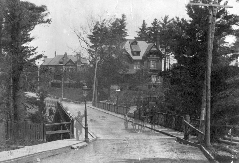 South Glen Road Bridge: corner of Dale and Glen Road (Toronto, Canada)